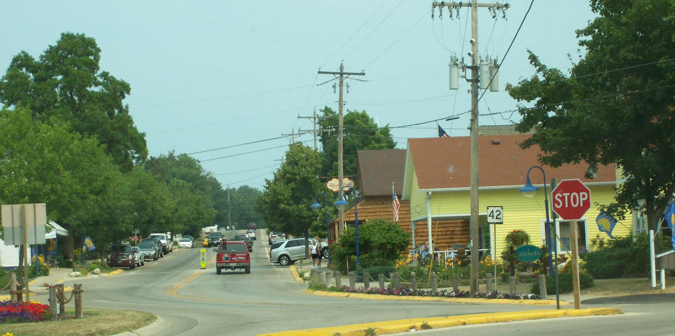 Looking northeast at the Egg Harbor, Wisconsin, USA while travelling on Wisconsin Highway 42.